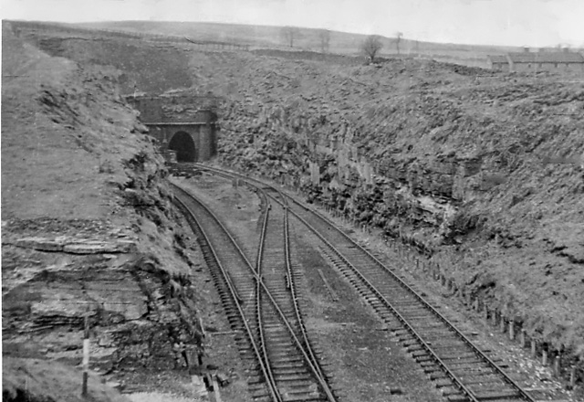 Old Woodhead Tunnel. Westward view from the bridge at Dunford Bridge Station: the disused tracks are still in place and the Up line portal of the old tunnels can be seen.